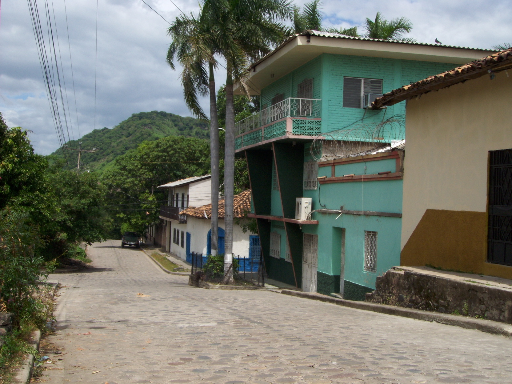 Houses and typical street in Nacaome, a municipality in the Honduran department of Valle.